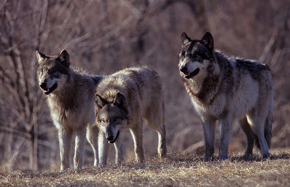 Wolves rely on their strength in numbers to protect each other as well as bring down prey